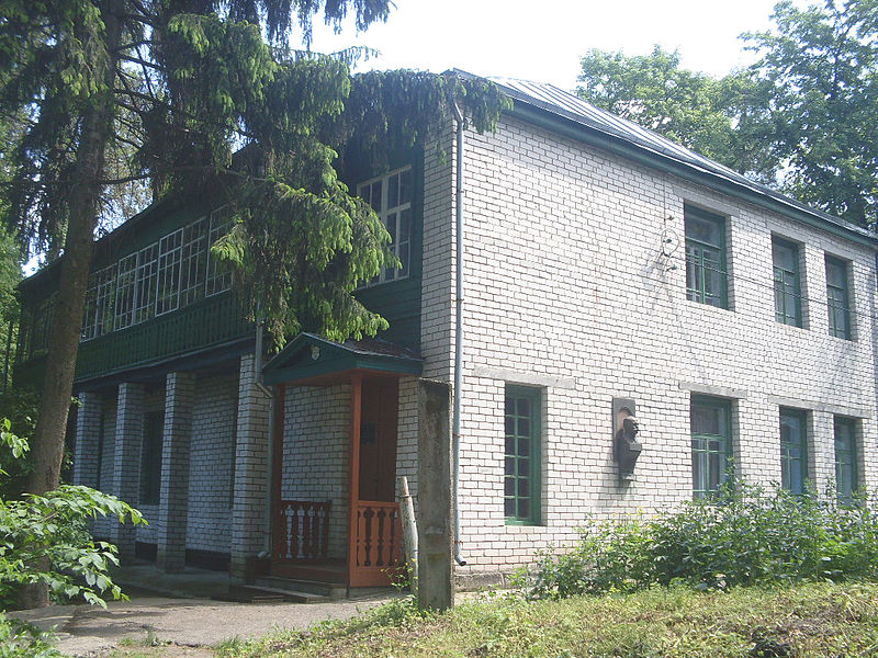 Kaniv Nature Reserve, Natural Museum